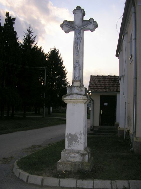 Crucifix next to the church ,Delovi, Podravina